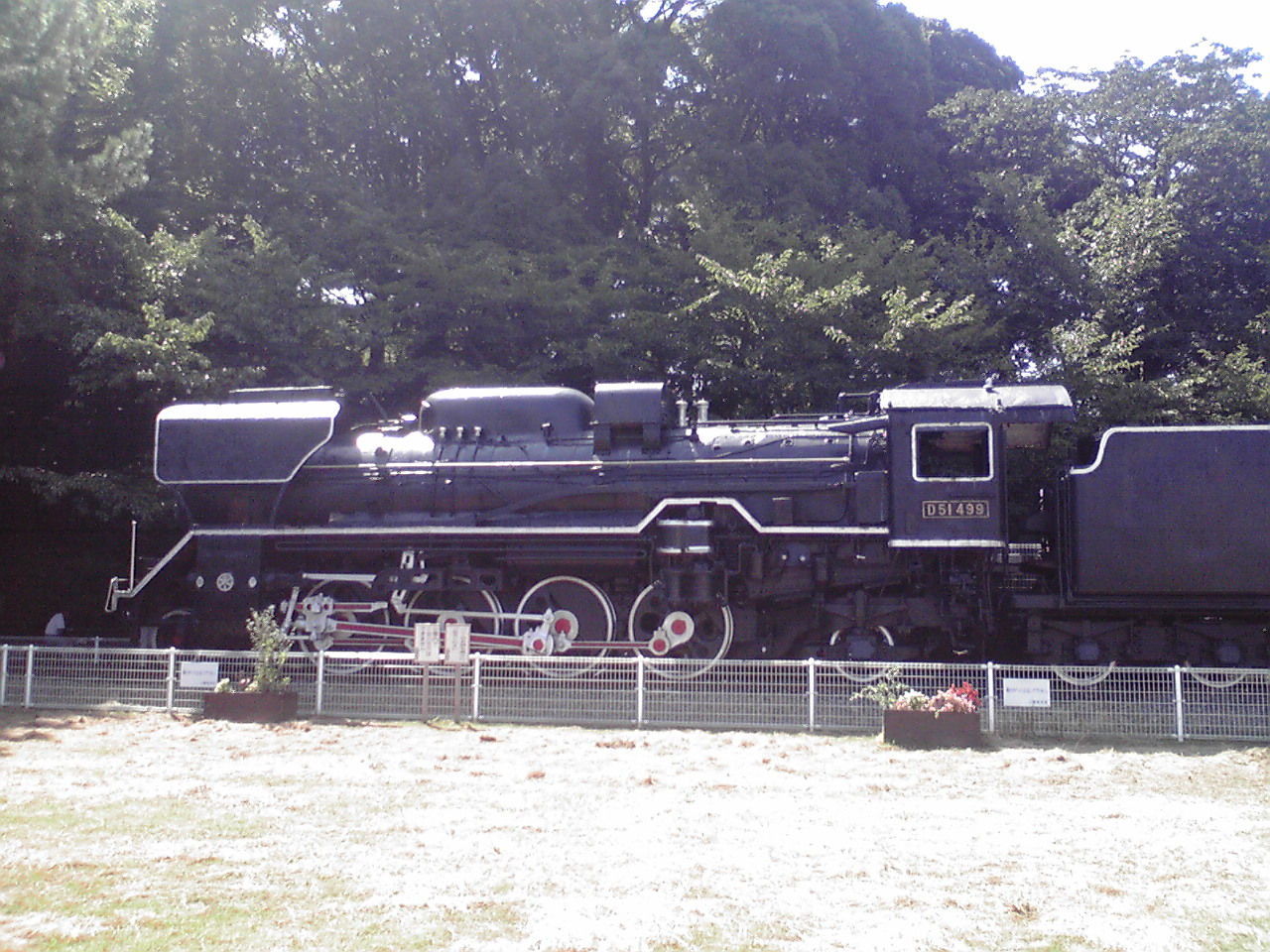 This is a D51 steam locomotive;one of the most famous steam locomotives in Japan.It's placed in Tsu, Mie, Japan.